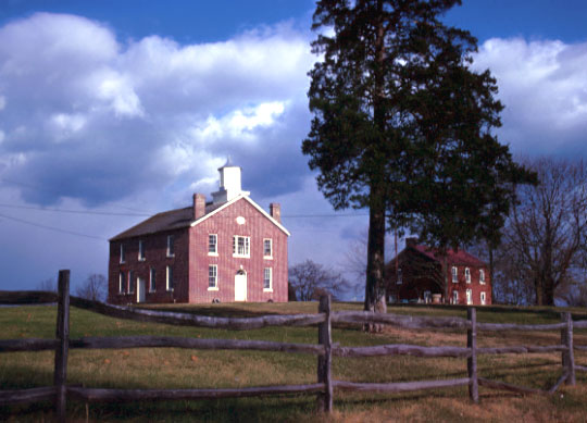 Former Prince William County Courthouse (Built 1822), Brentsville (Prince William County, Virginia) This image or file is a work of a United States Department of Agriculture employee, taken or made as part of that person's official duties. As a work of the U.S. federal government, the image is in the public domain. Object location38° 41′ 23″ N, 77° 30′ 02″ W